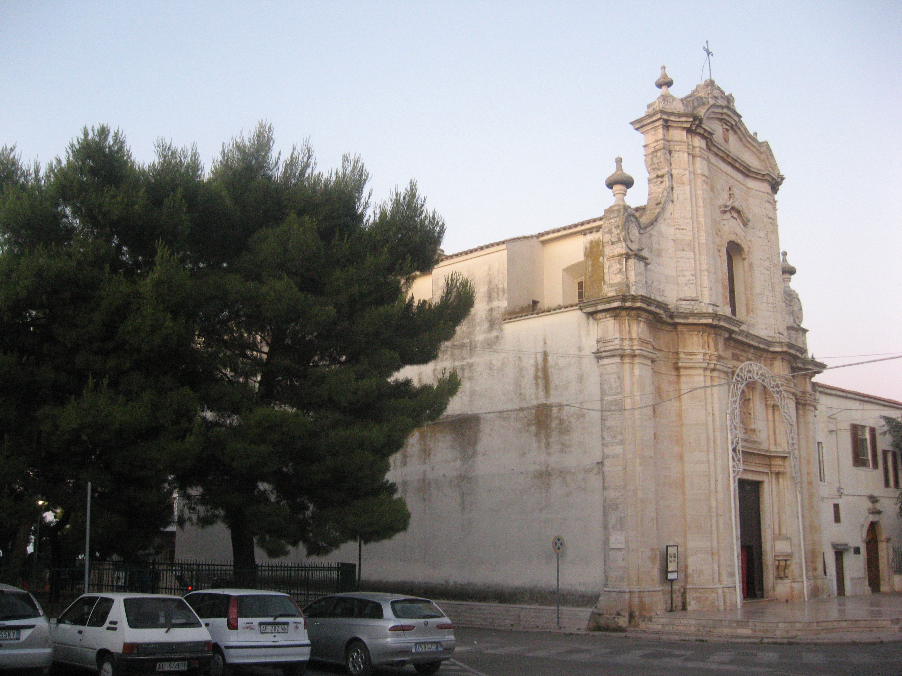 Saint Michael's Church in Ruvo